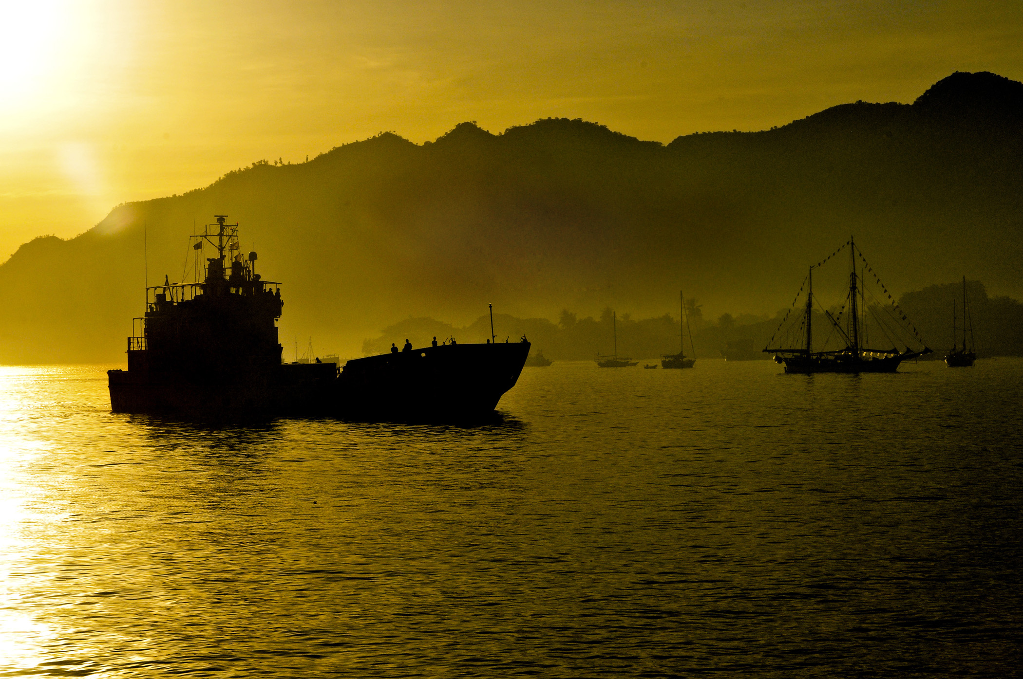 DILI, Timor-Leste (June 24, 2011) The Royal Australian Navy heavy landing craft HMAS Betano (L 133) pulls into the port of Dili to drop off members of Pacific Partnership 2011. Pacific Partnership is a five-month humanitarian assistance initiative that will make port visits to Tonga, Vanuatu, Papua New Guinea, Timor-Leste, and the Federated States of Micronesia. (U.S. Navy photo by Kristopher Radder/Released)